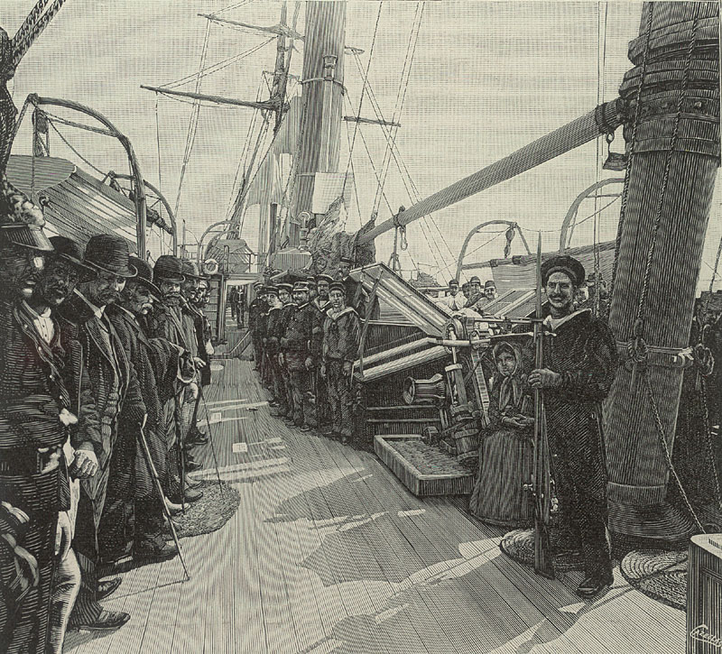 Prison of the rioters of the January 31. The prisoners on board the transport "India"